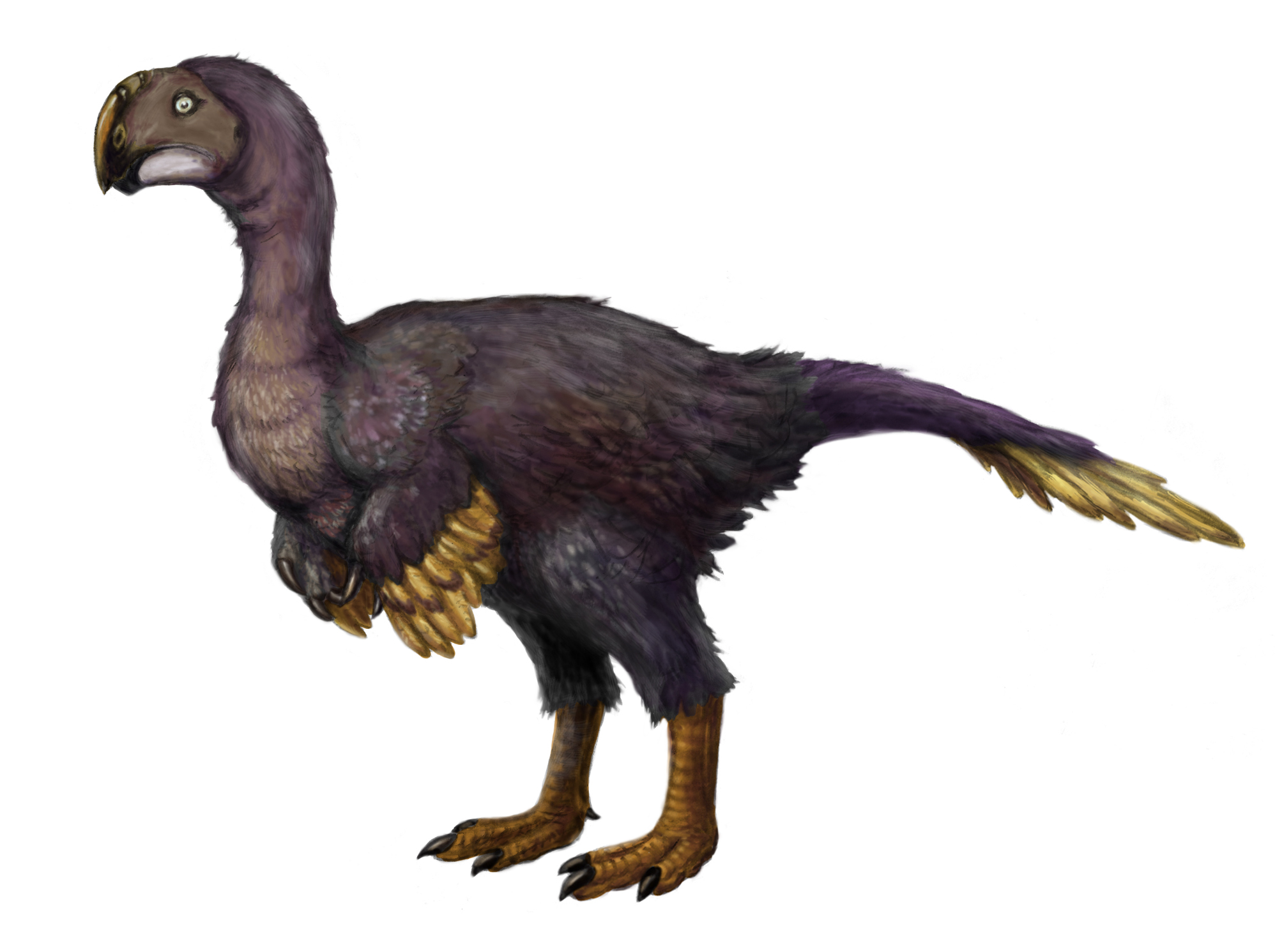 Restoration of Ganzhousaurus nankangensis, proportions based on diagrams of the holotype specimen and related genera.